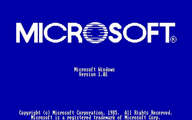 An image of the splash screen of Windows 1.0.1